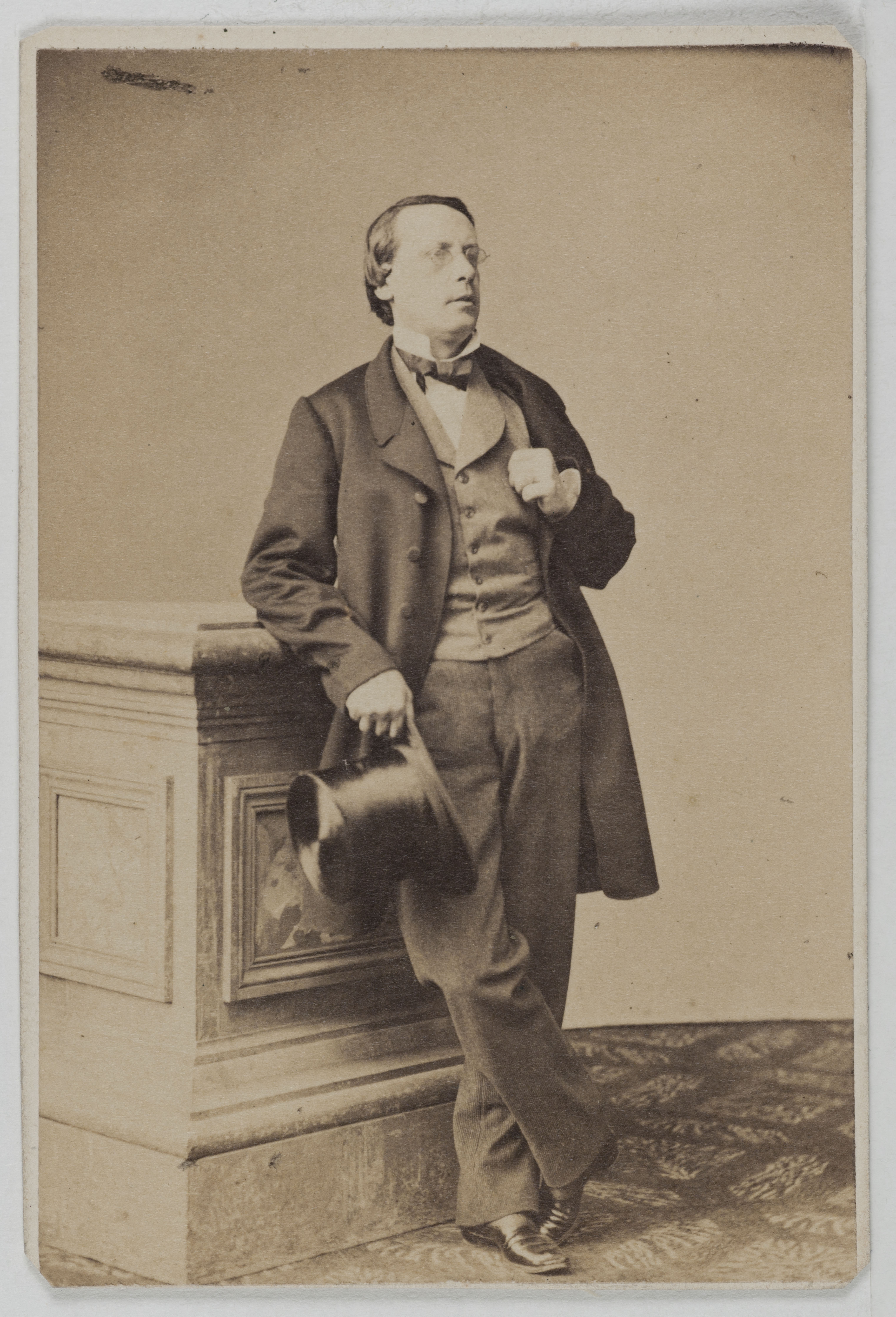 Portrait de Léonce (dit Édouard Théodore Nicole) (1823-1900), acteur. 1860-1890. Carte de visite (recto). Tirage sur papier albuminé. Photographie anonyme. Paris, musée Carnavalet.